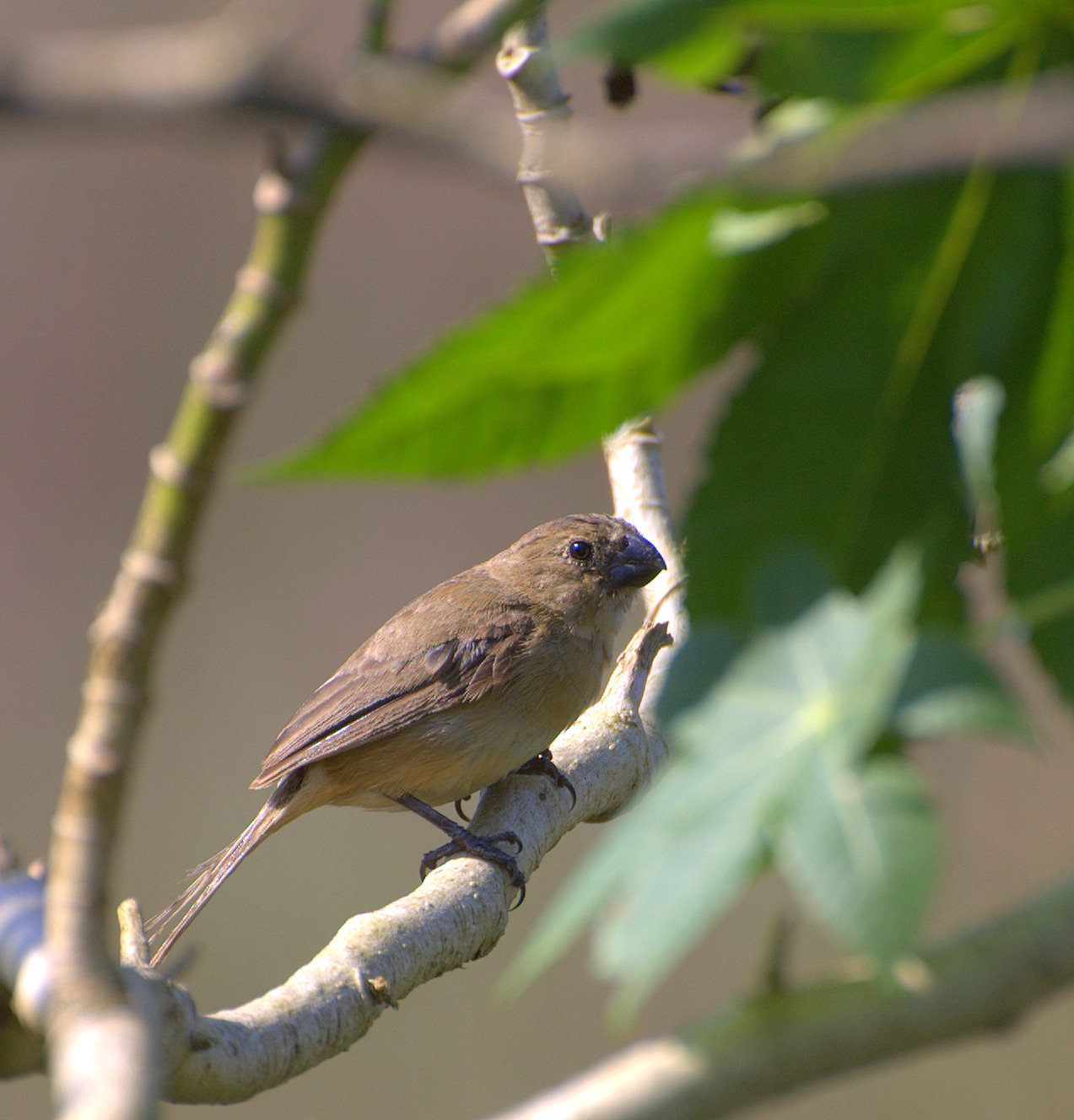 White-bellied Seedeater (Sporophila leucoptera)